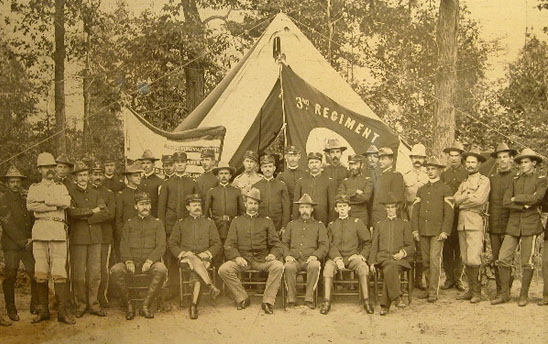 Officers and non-commissioned officers in front of the flag of the 3rd Virginia Volunteer Infantry